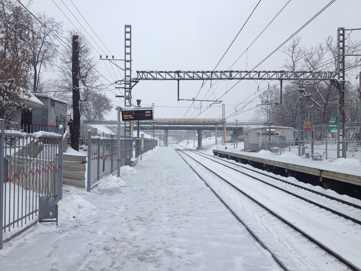 Rizhskaya railway platform of Oktyabrskaya Railway